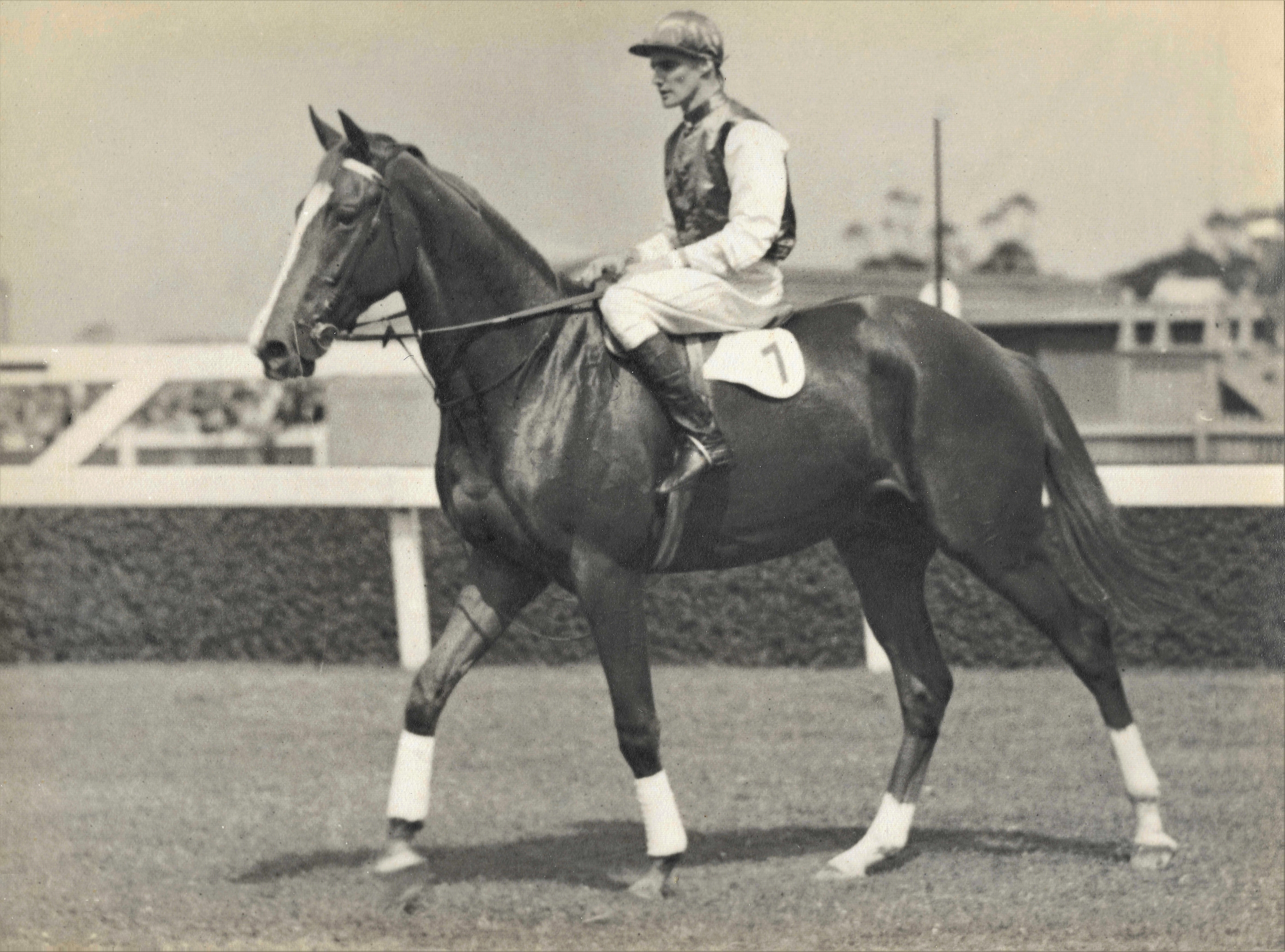 High resolution scan from original photo